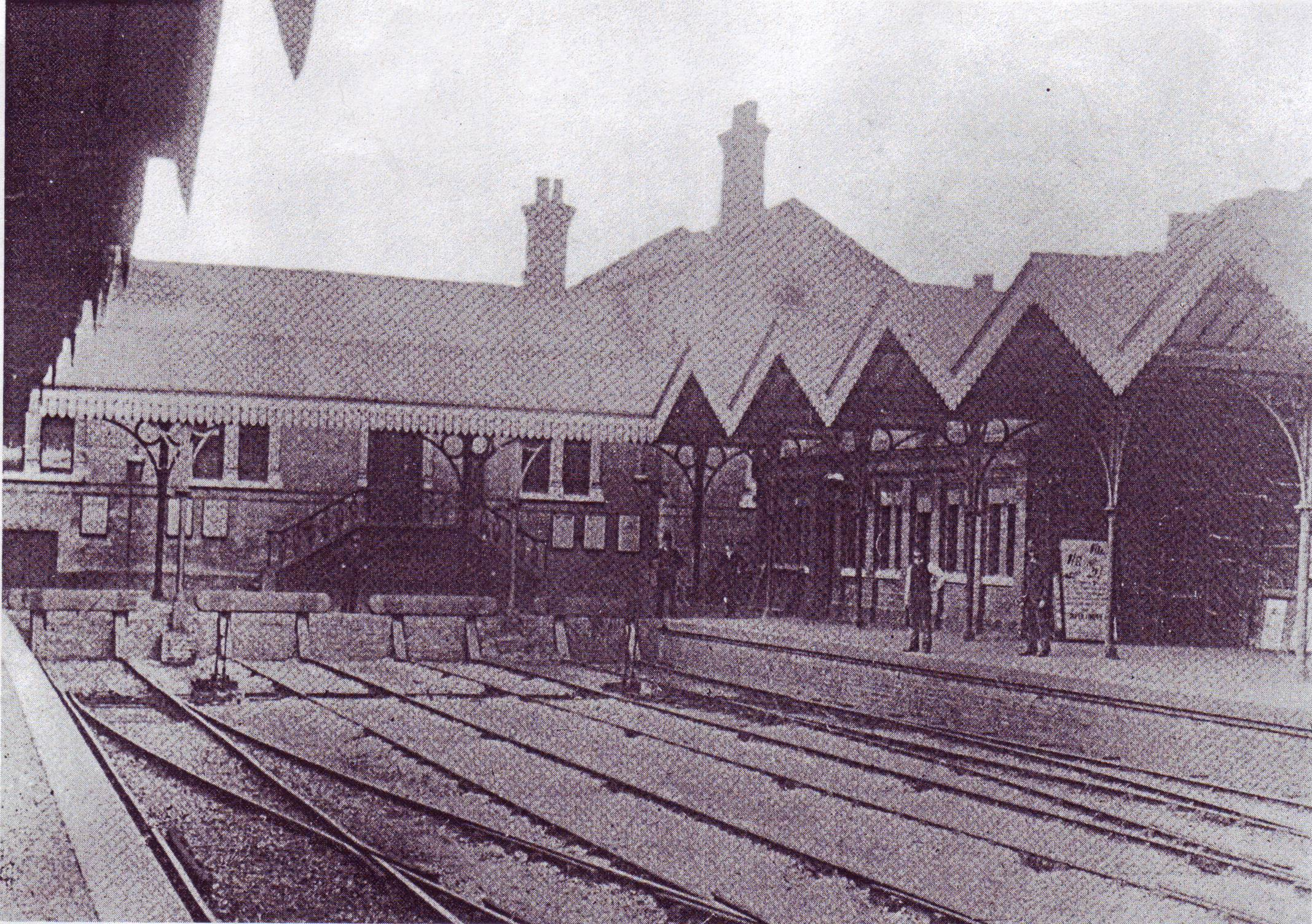 Croydon Central Railway Station, London